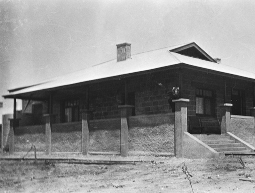 Macumba Station homestead 1912